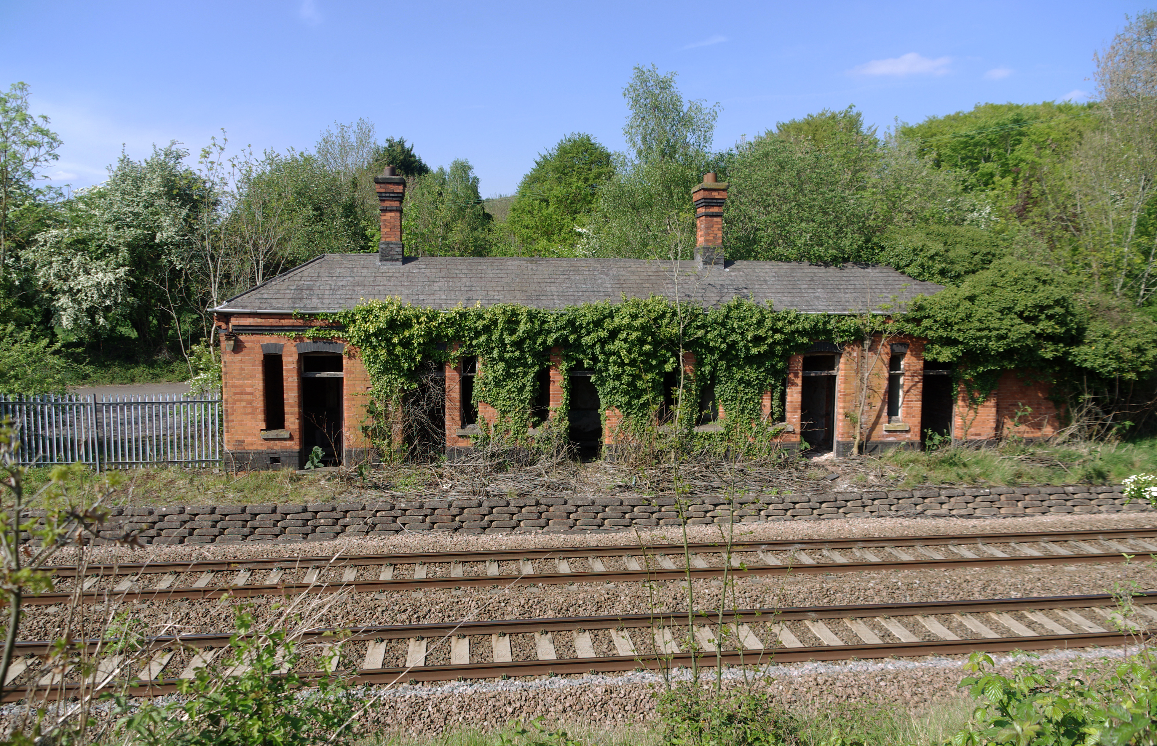 Flax Bourton railway station on the Bristol to Exeter Line. The station closed in 1963 and has been derelict ever since.